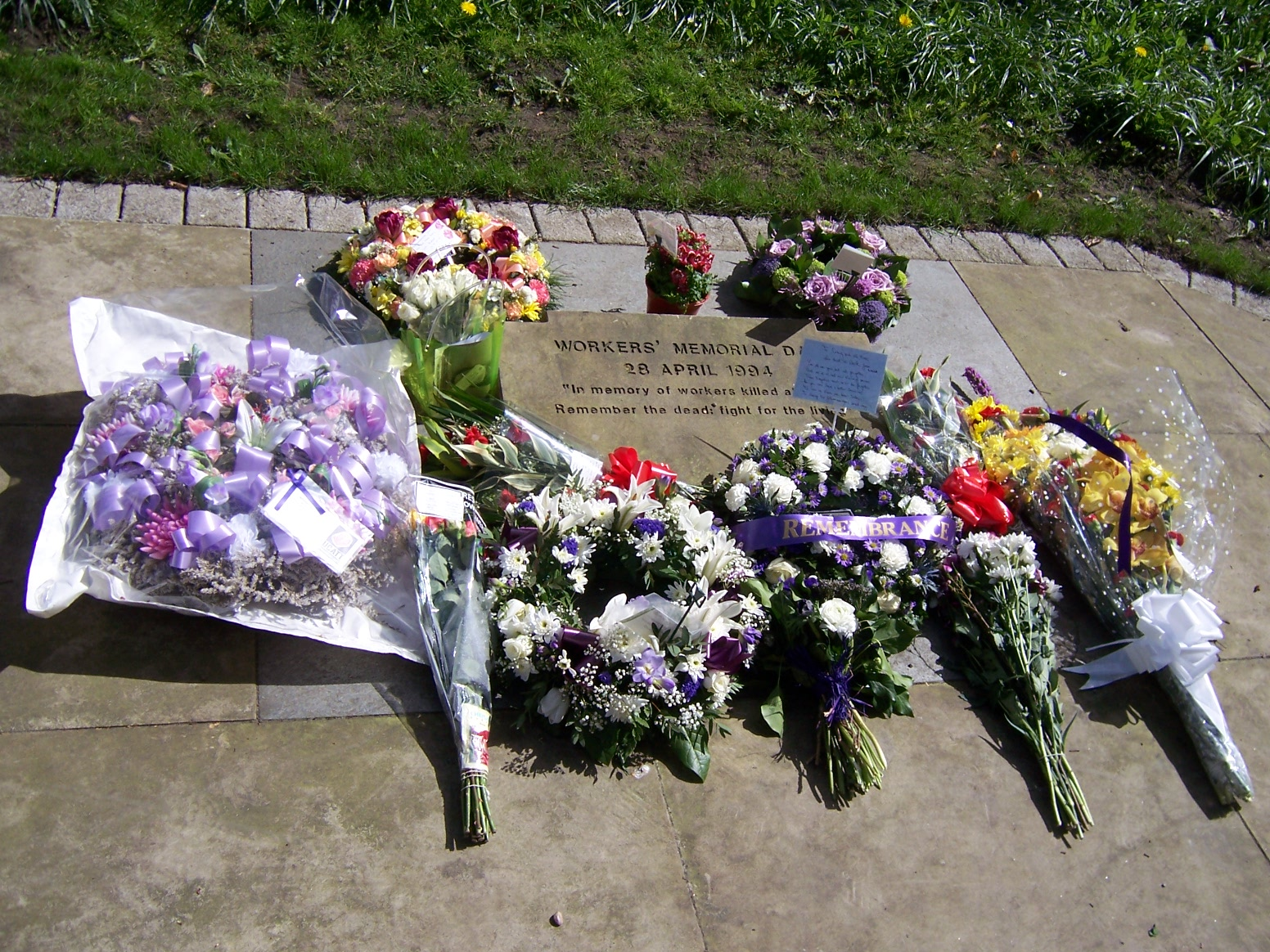 Workers' Memorial in Manchester, England. Inscription: WORKERS' MEMORIAL DAY / 28 APRIL 1994 / "In memory of workers killed at work / Remember the dead: fight for the living"